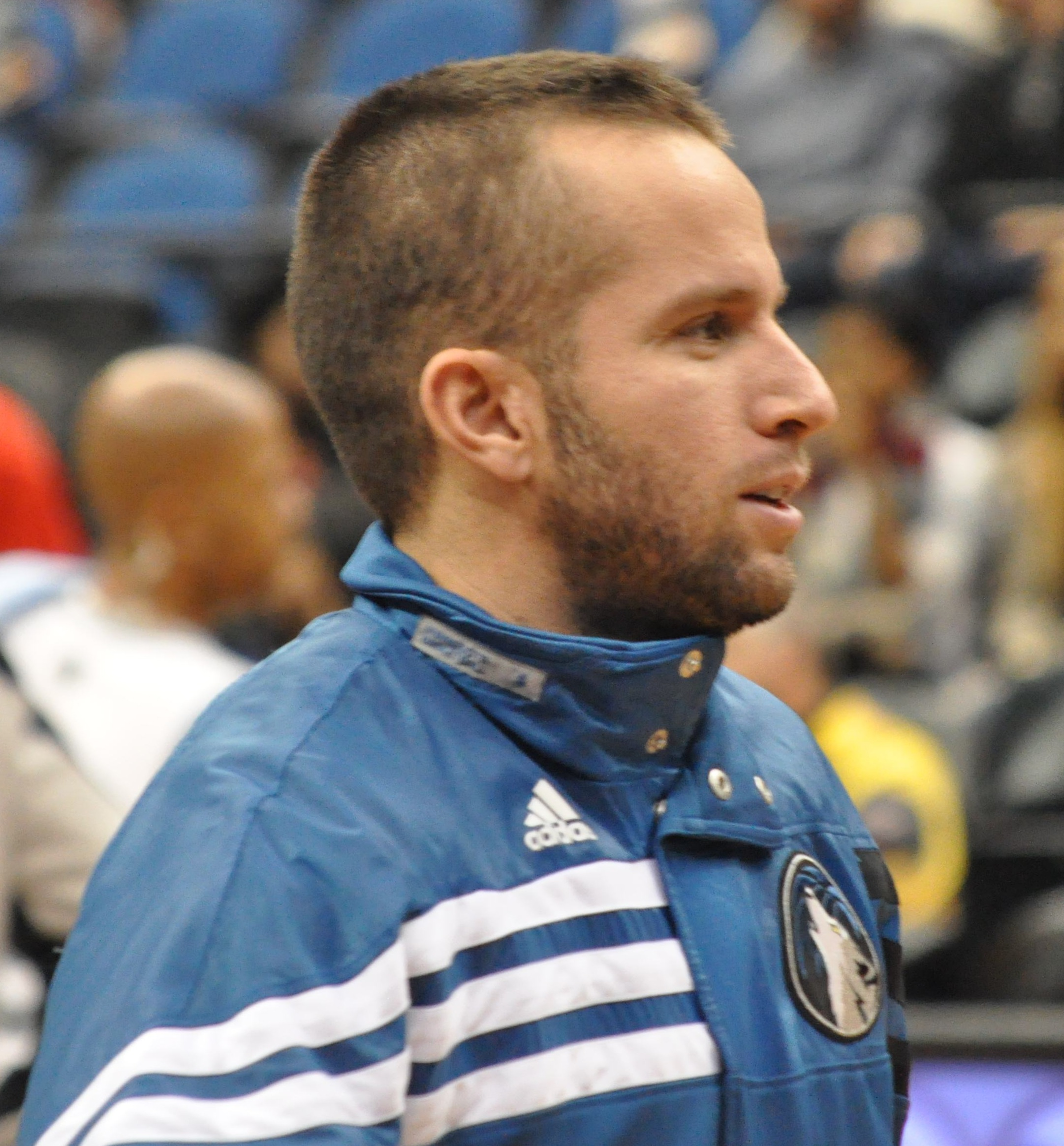 José Juan Barea of the Minnesota Timberwolves